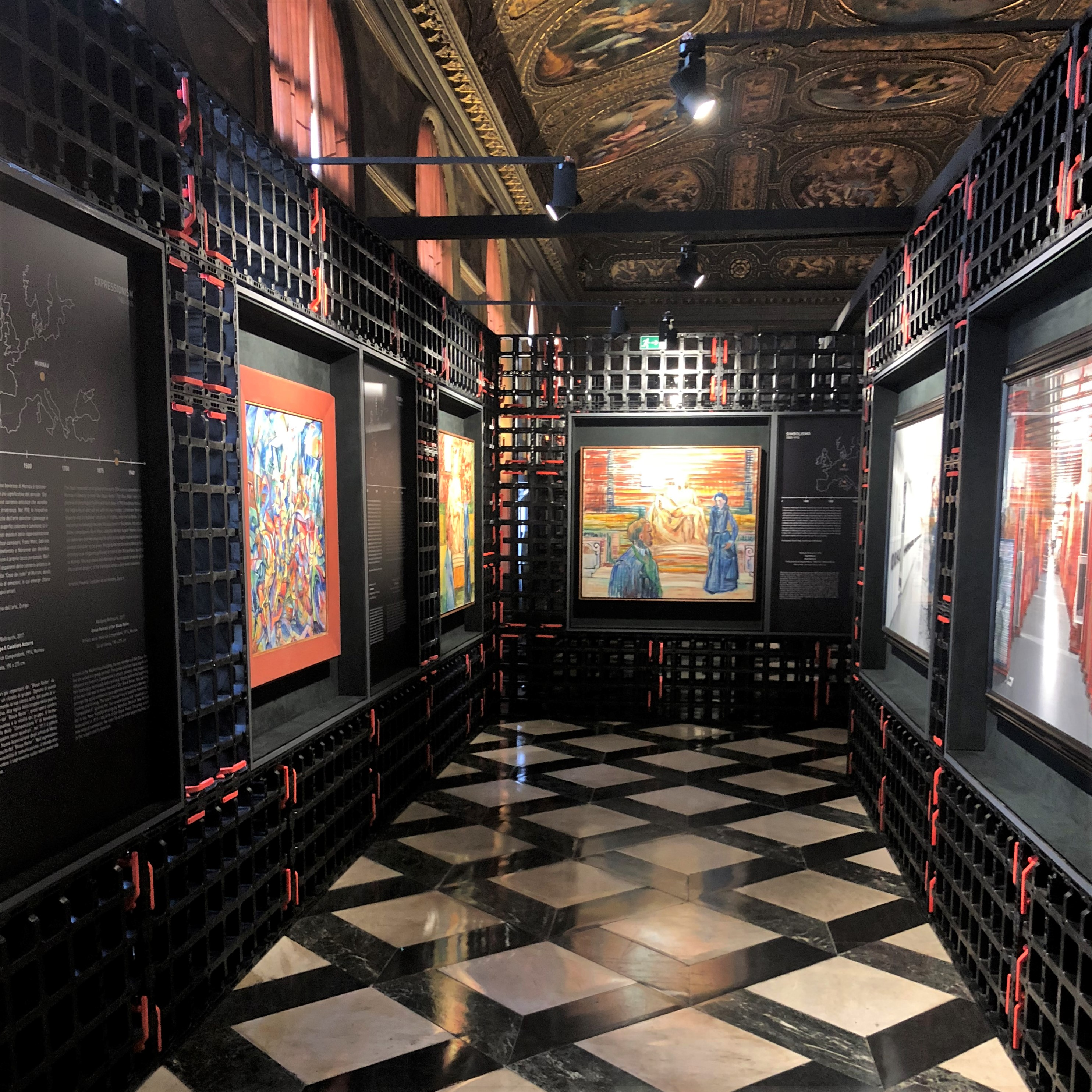 Exhibition "KAIROS. The Right Moment", Wolfgang Beltracchi and Mauro Fiorese. A project by Christian Zott